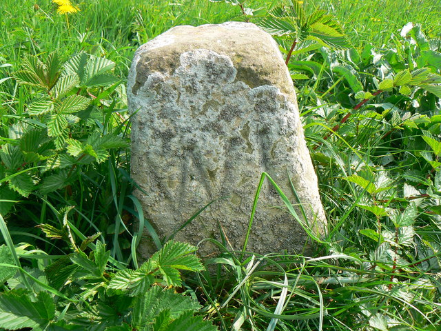 Hay lot marker stone, North Meadow NNR, Cricklade Stones such as this were used to mark the position of an individual hay lot (allotment) in the meadow. The stones bear the initials of the lot-holder. Probably one of the smaller standing stones on Geograph.